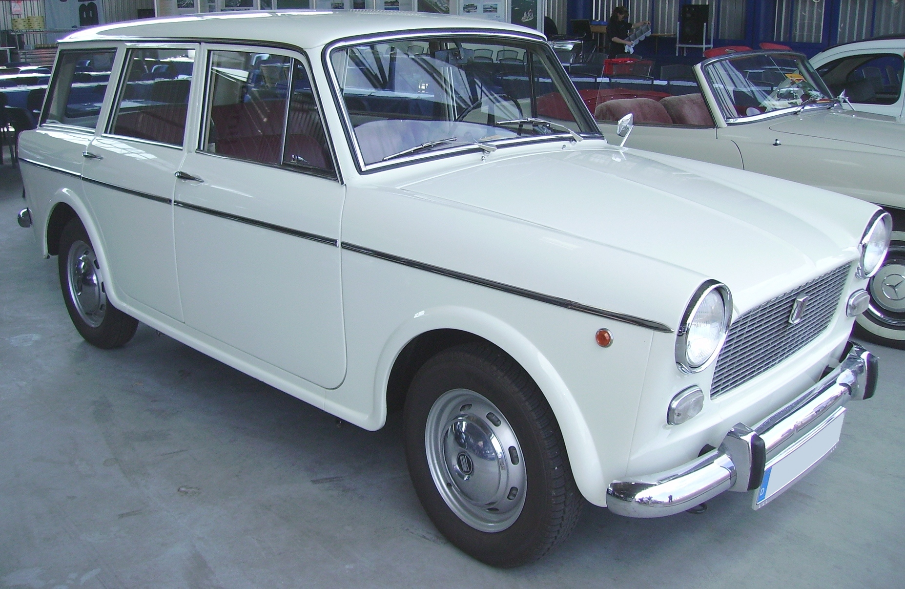 A Fiat 1100 D station wagon